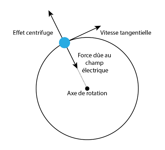 orbitrap4